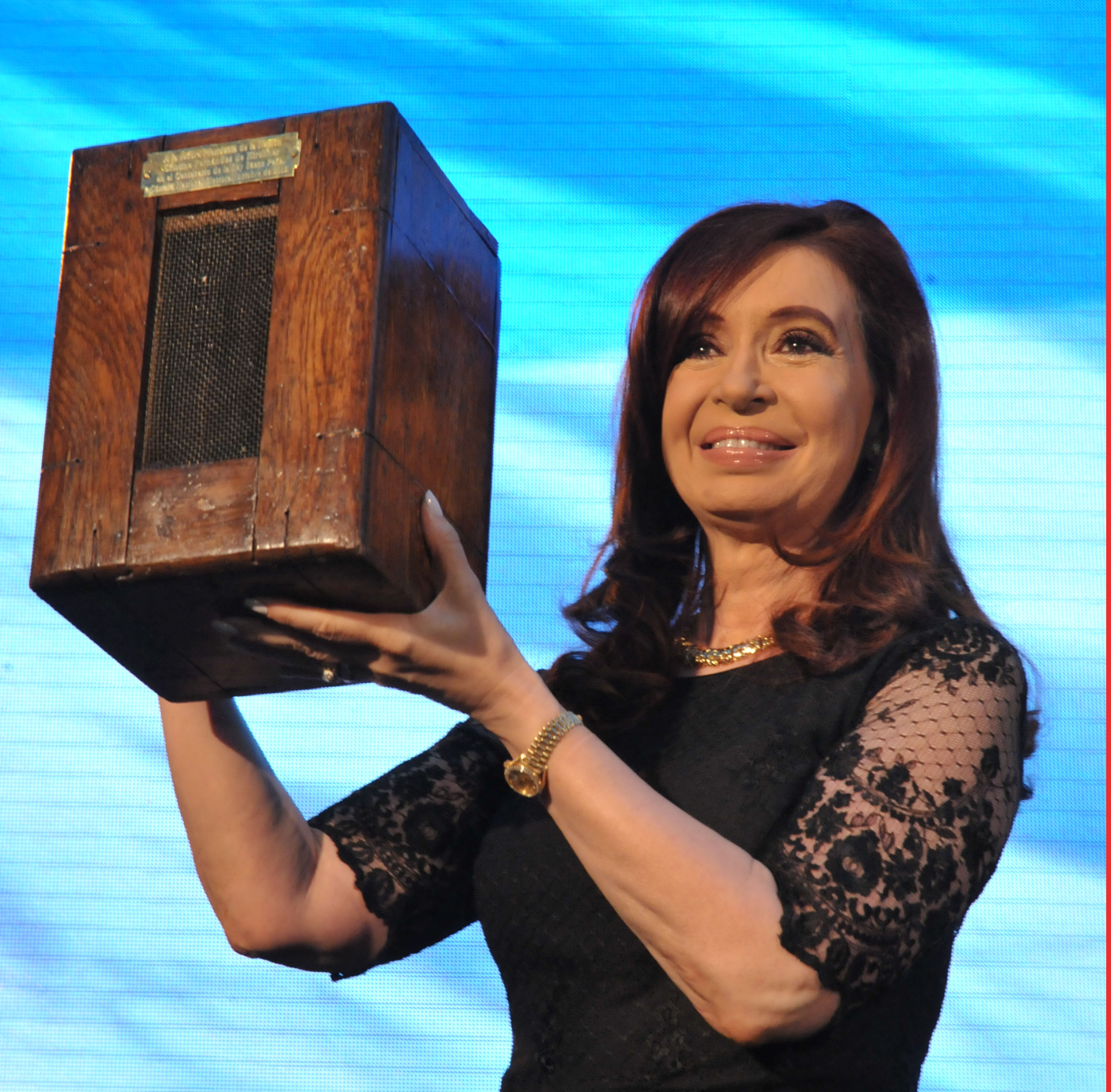 Cristina Kirchner with a ballot box from 1916 in commemoration of the centenary of the passing of the Saenz Pena Law.